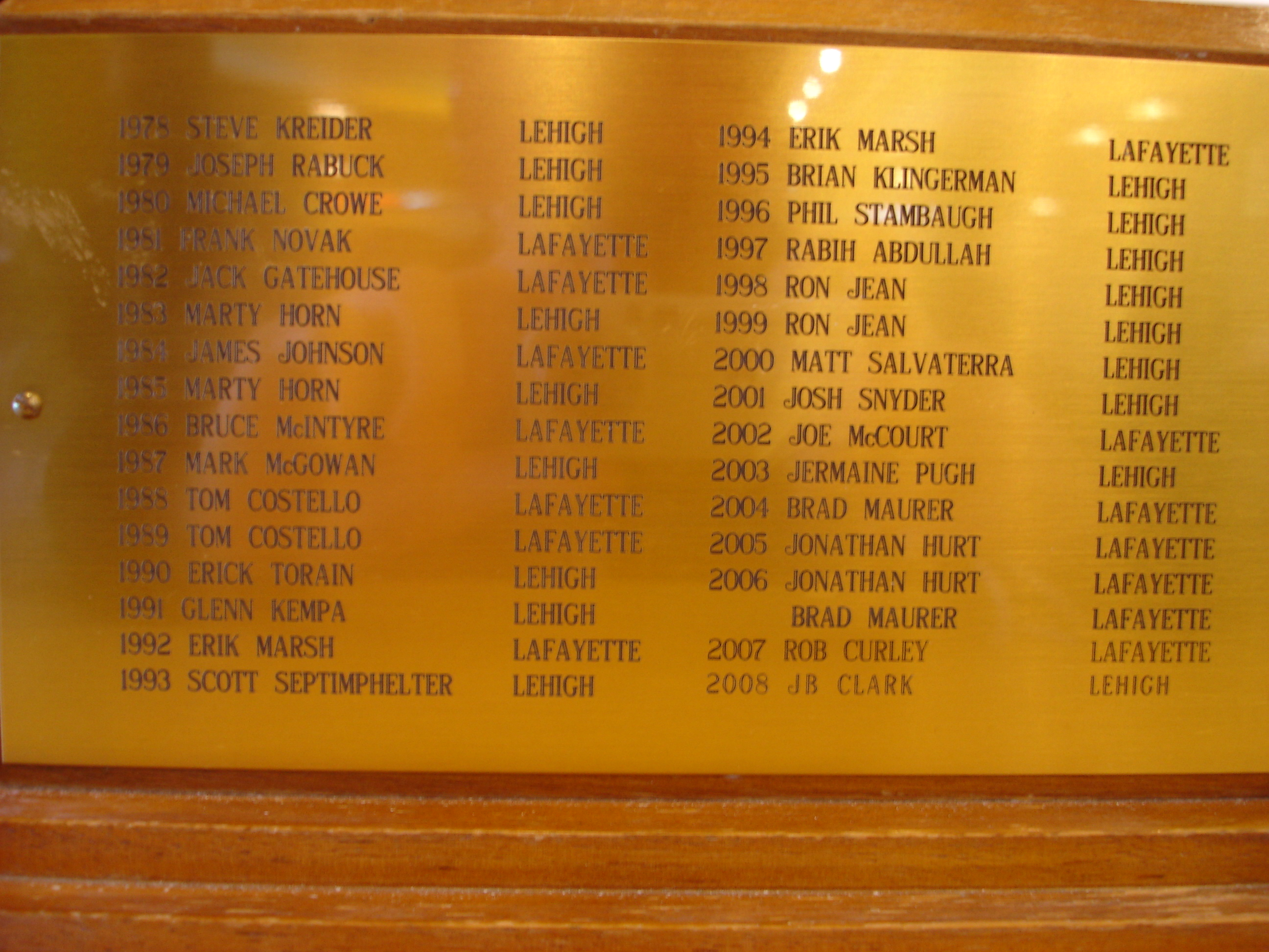 The Lafayette-Lehigh most valuable player as voted on by the media is awarded the trophy following the game. The photo shows the engraved MVPs engraved on the trophy's plaque the morning of the 144th game at Lehigh.